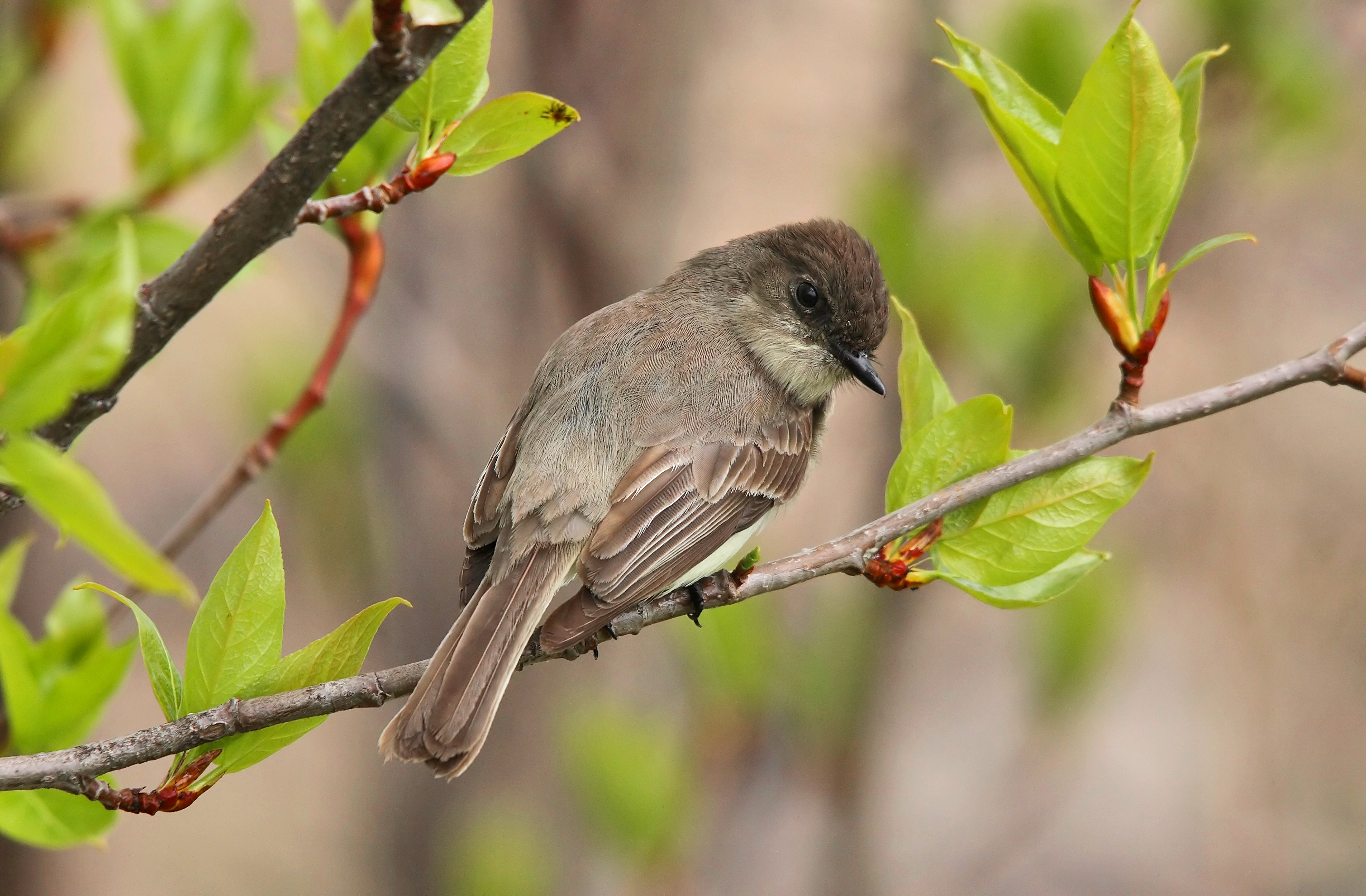 Eastern Phoebe (Sayornis phoebe), Cap Tourmente National Wildlife Area, Quebec, Canada